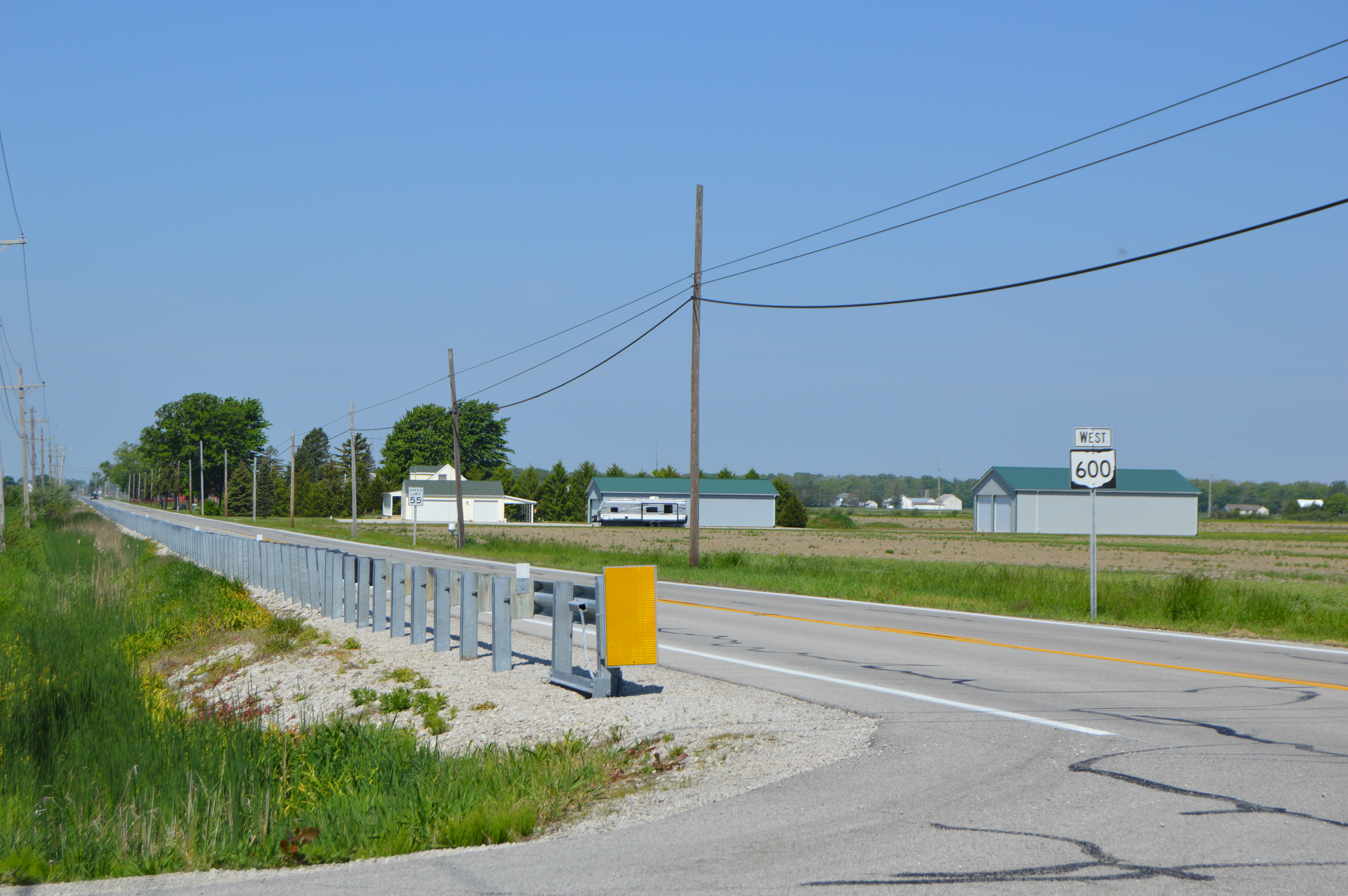 Looking west on State Route 600 from the Bair Road intersection in Madison Township, Sandusky County, Ohio, United States.